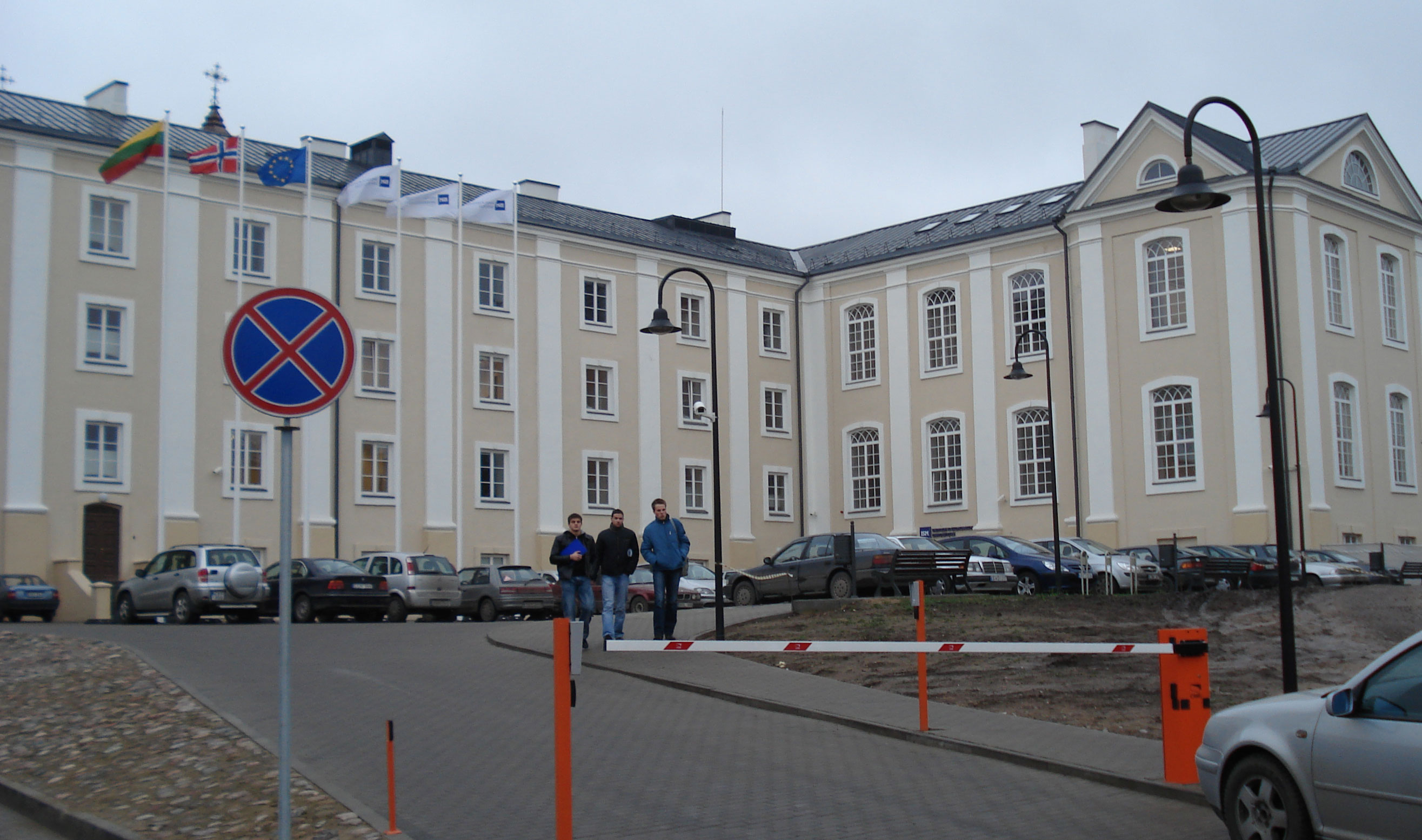 ISM University of Management and Economics.